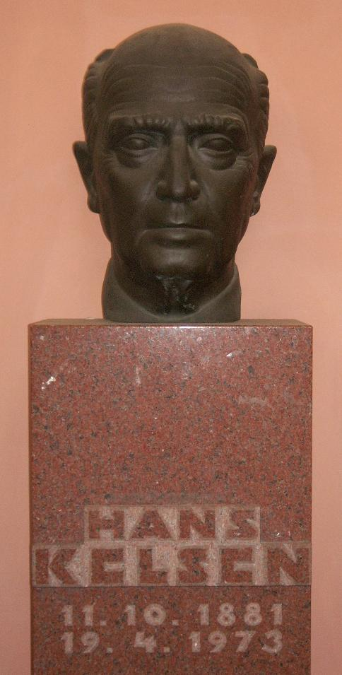 Bust of Hans Kelsen in the ambulatory of the University of Vienna.